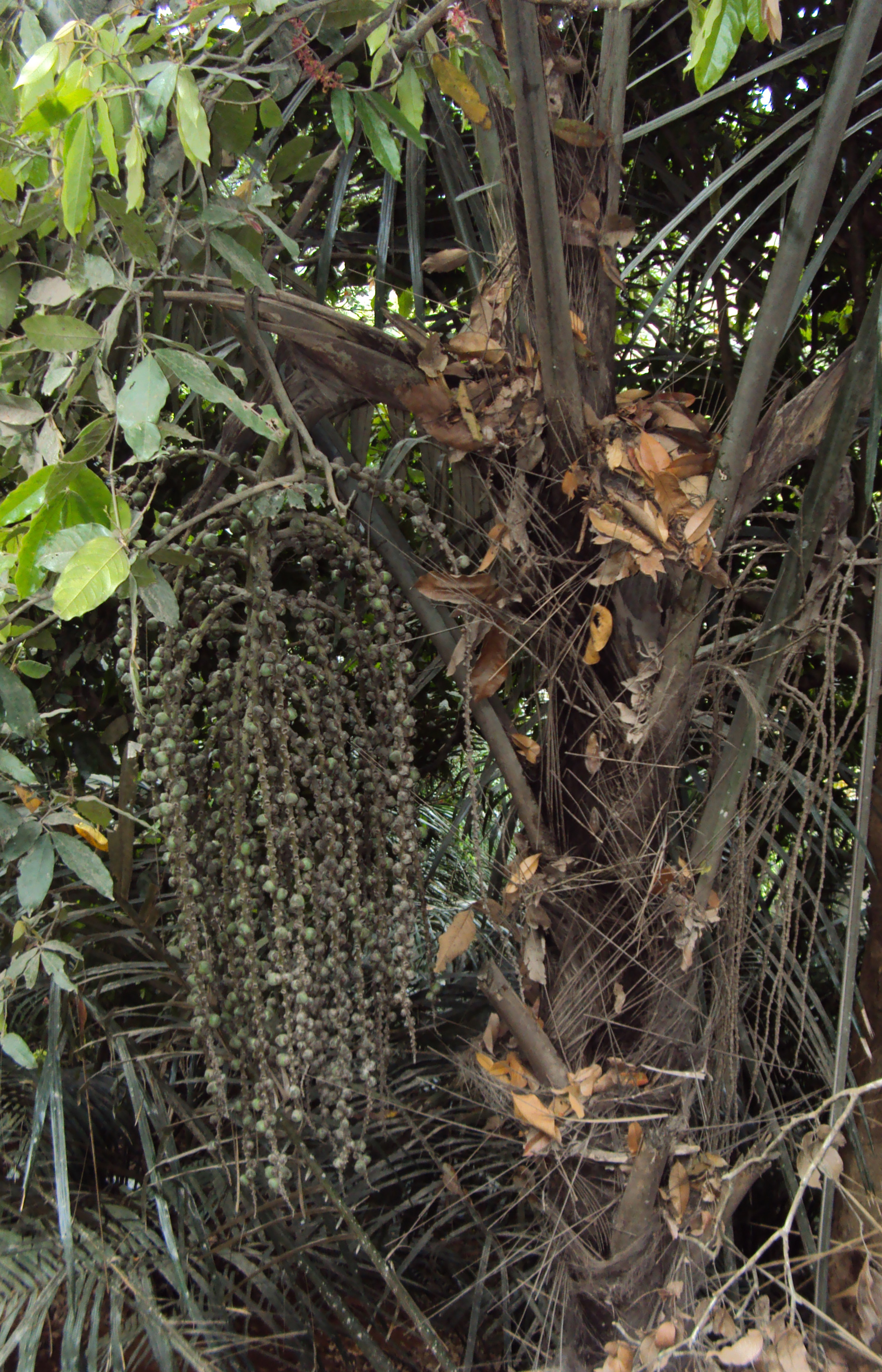 Arenga wightii